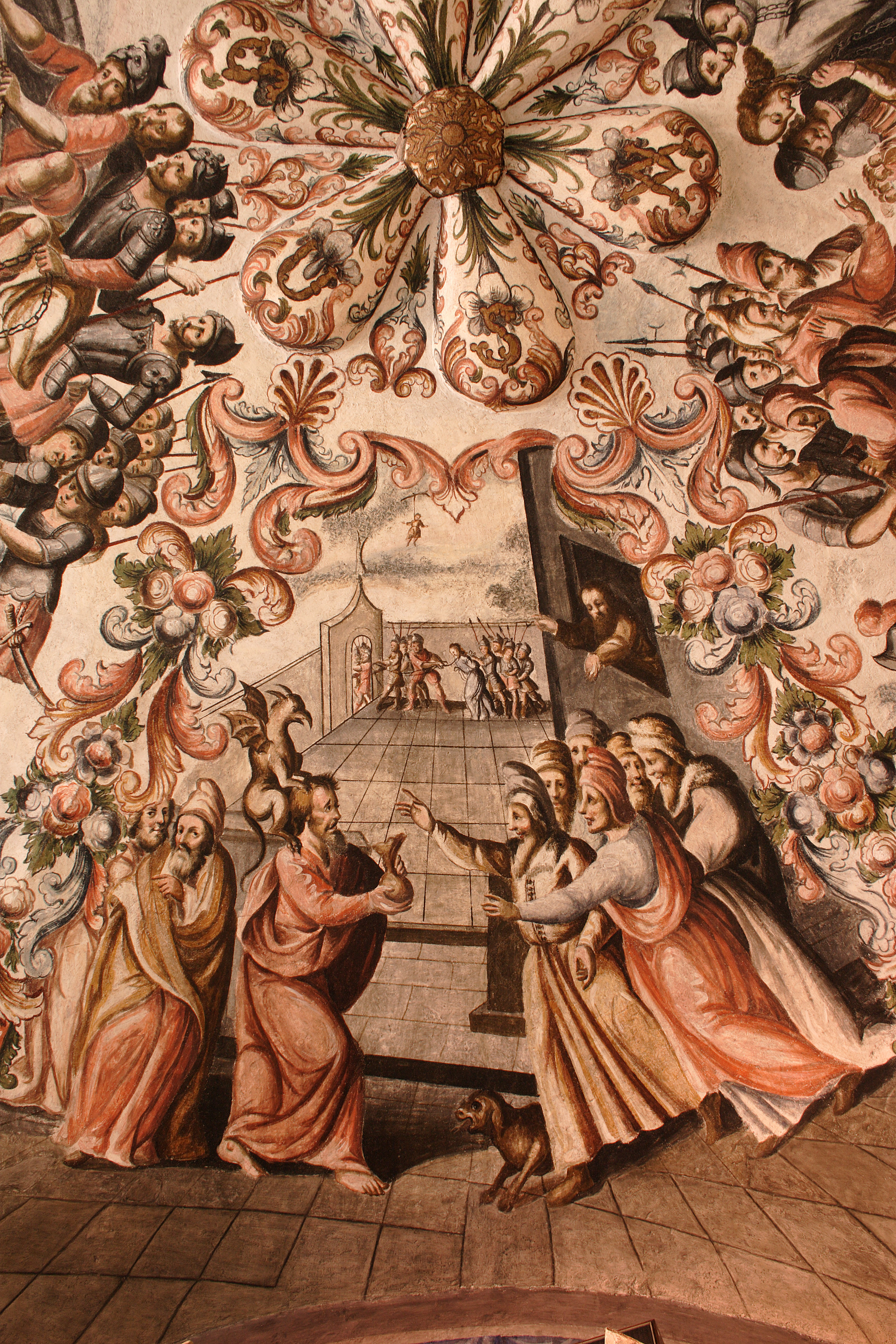 Painting at the ceiling of the Church of Atotonilco — an 18th century church in the state of Guanajuato, Mexico. The ceiling depicts Judas receiving the money to betray Jesus.